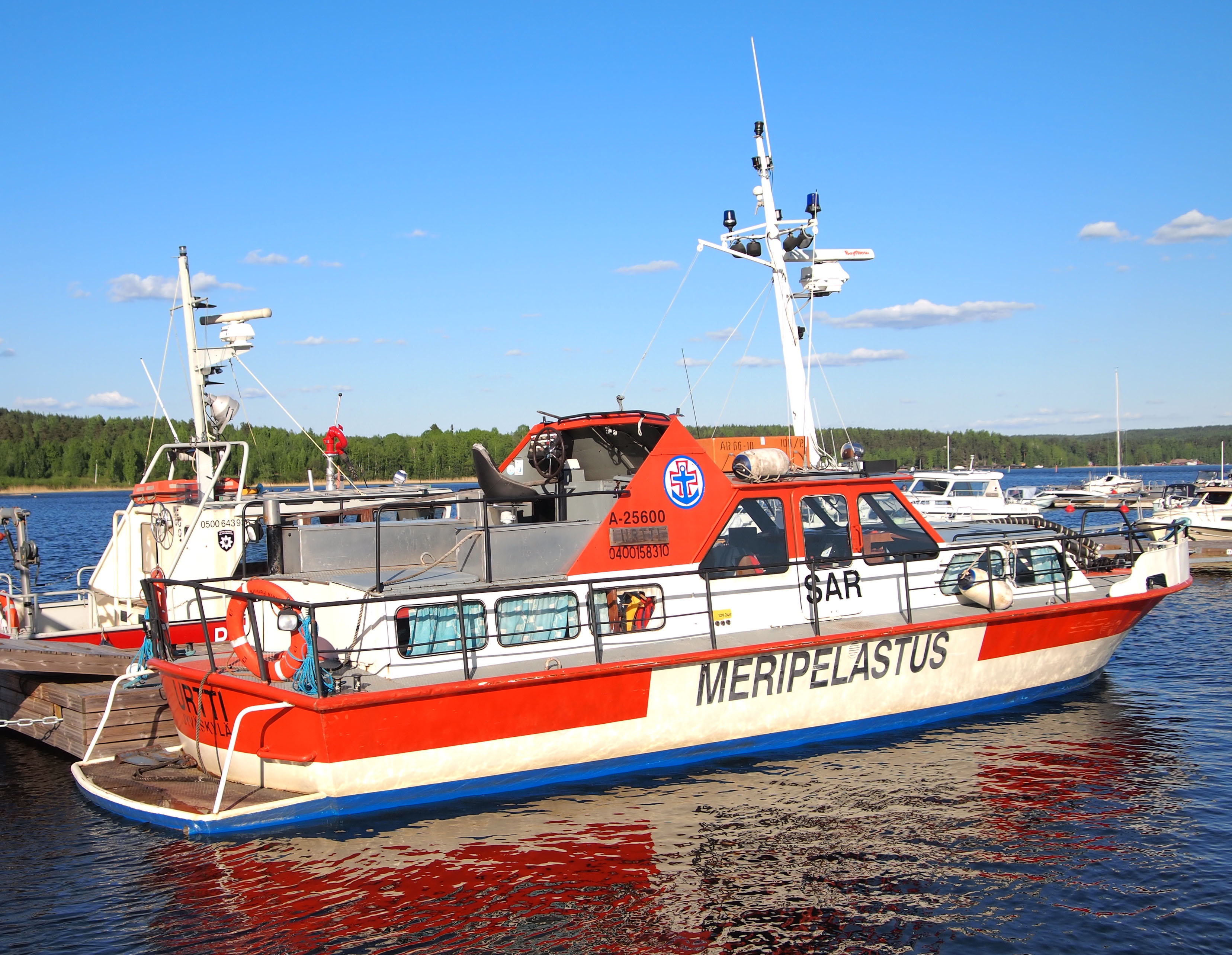 Lifeboat in Jyväskylä. This photograph was taken with an Olympus E-PL1